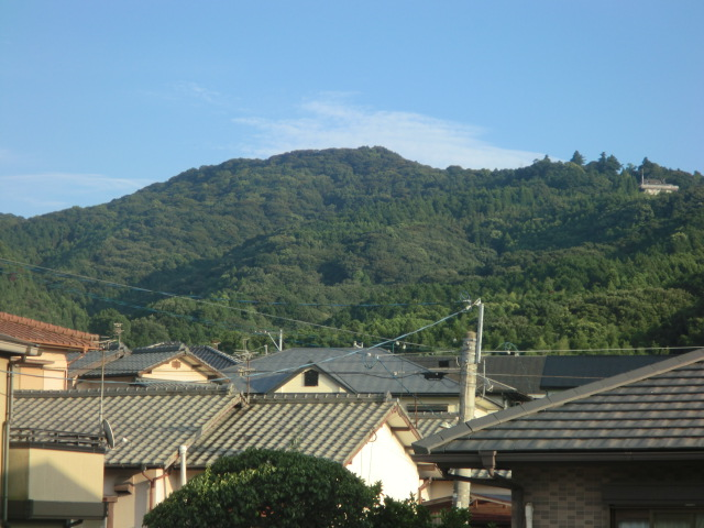 Kōra mountain in Kurume city,Japan.It is famous for Kōra Taisha.